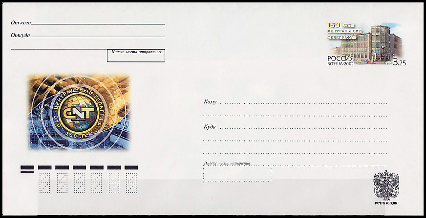 Russia, 2002. Envelope with commemorative stamp (EWCS) № 118. The 150th anniversary of Central Telegraph Office. Envelope design A. Batov.